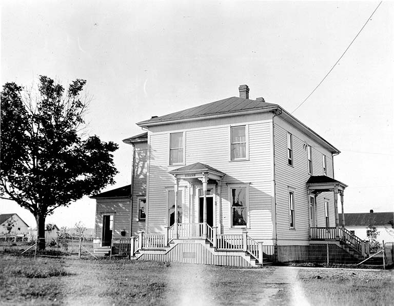 From John Cobb field notebook: Semiahmoo cannery, office building Subjects (LCTGM): Canneries--Washington (State)-- Semiahmoo; Office buildings--Washington (State)--Semiahmoo Subjects (LCSH): Salmon canning industry--Washington (State)--Semiahmoo